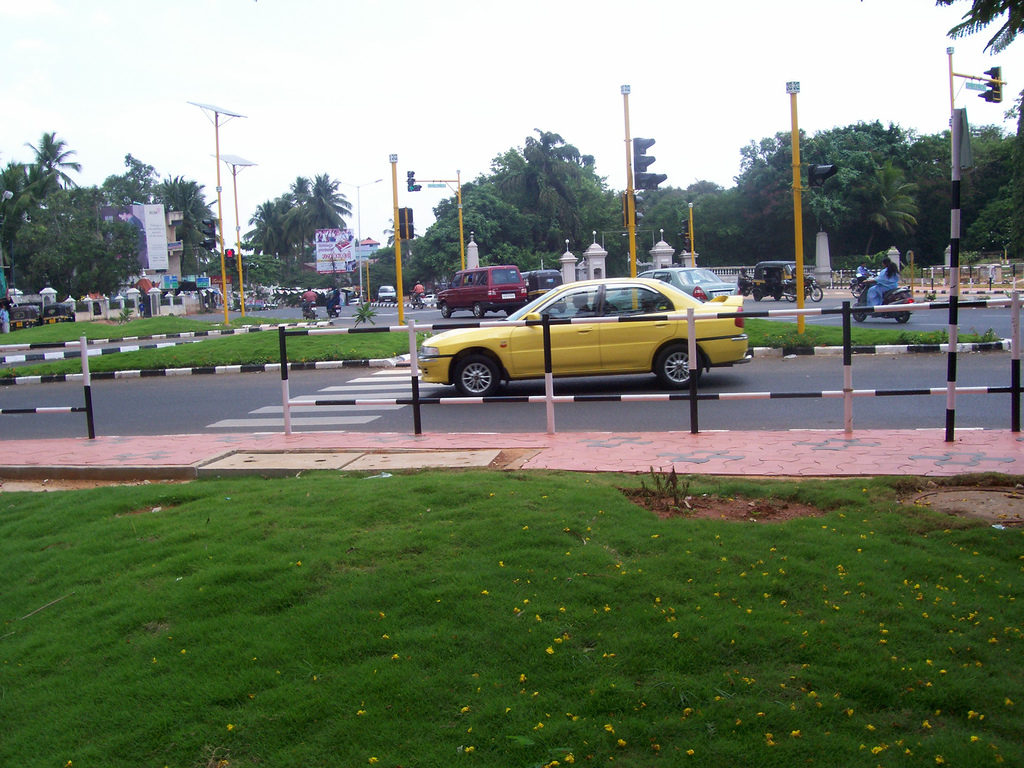 Thiruvananthapuram Kowdiar Square